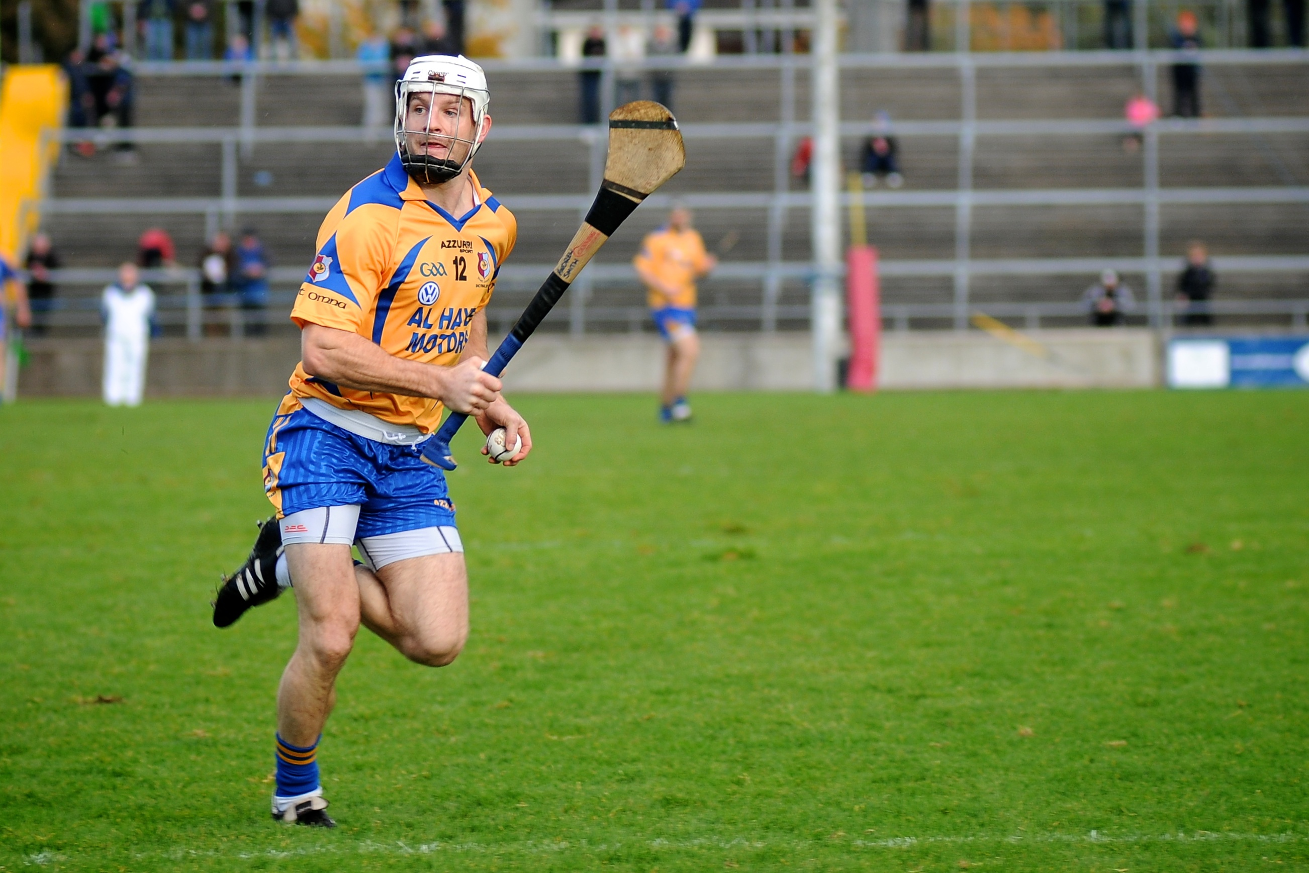 Any Smith in action for Portumna against Loughrea in the 2013 Galway Senior Hurling final at Pearse Stadium, Galway.